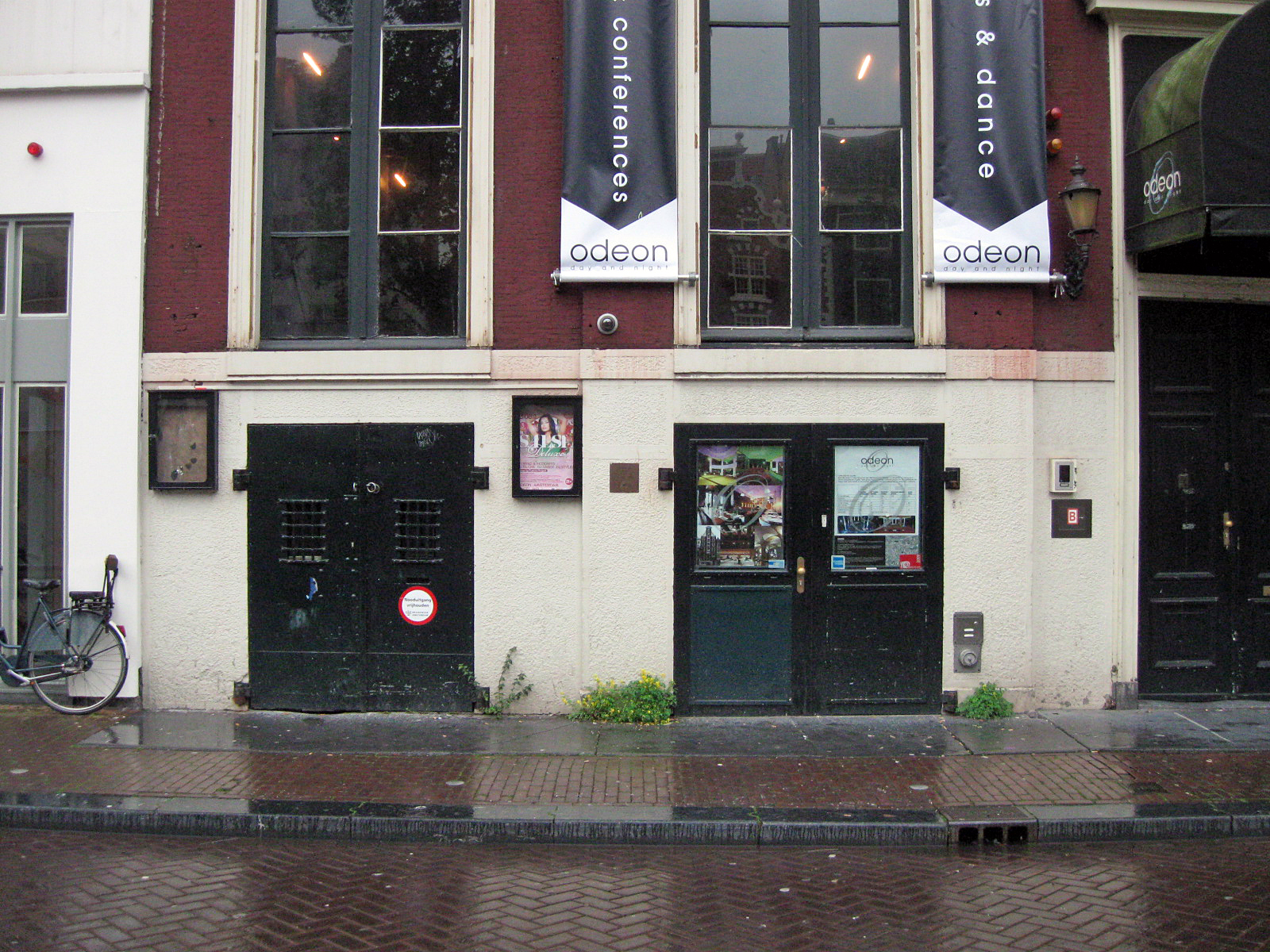 Entrance door (left) to the former DOK, the first gay disco of Europe, which was situated underneath the Odeon building at the Singel in Amsterdam.